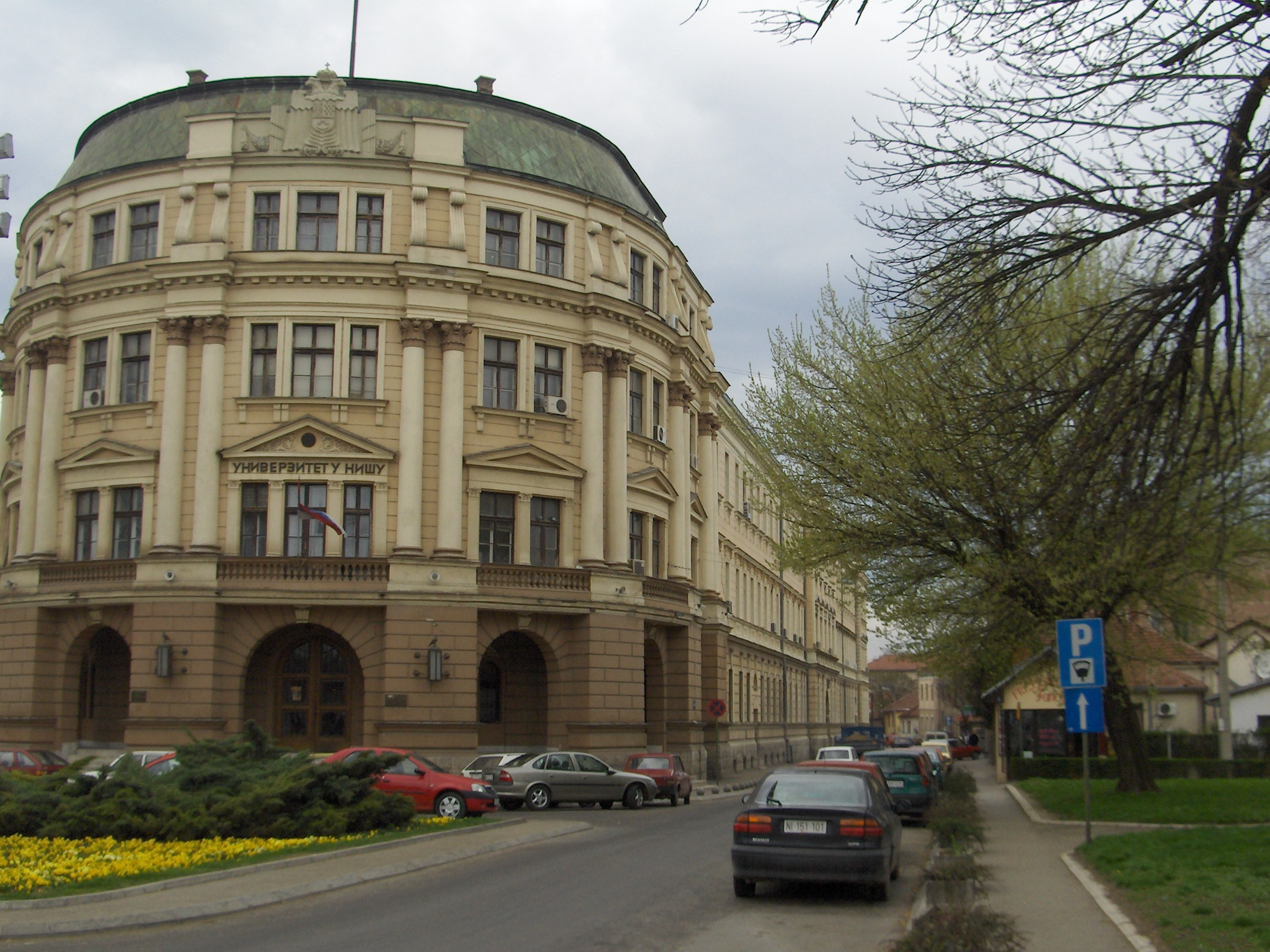 University of Nis